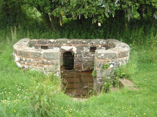 Trellech's holy well The Virtuous Well, also known as St Anne's Well, is still a place of pilgrimage; visitors to the well have suspended small strips of cloth in the hedgerow behind the well. When this photograph was taken, there was a person sitting inside on the left, meditating. The clear water emerges from the central opening in the back wall and floods the space in front. Just visible, the other, rectangular, niches appear to be places to leave votive offerings.